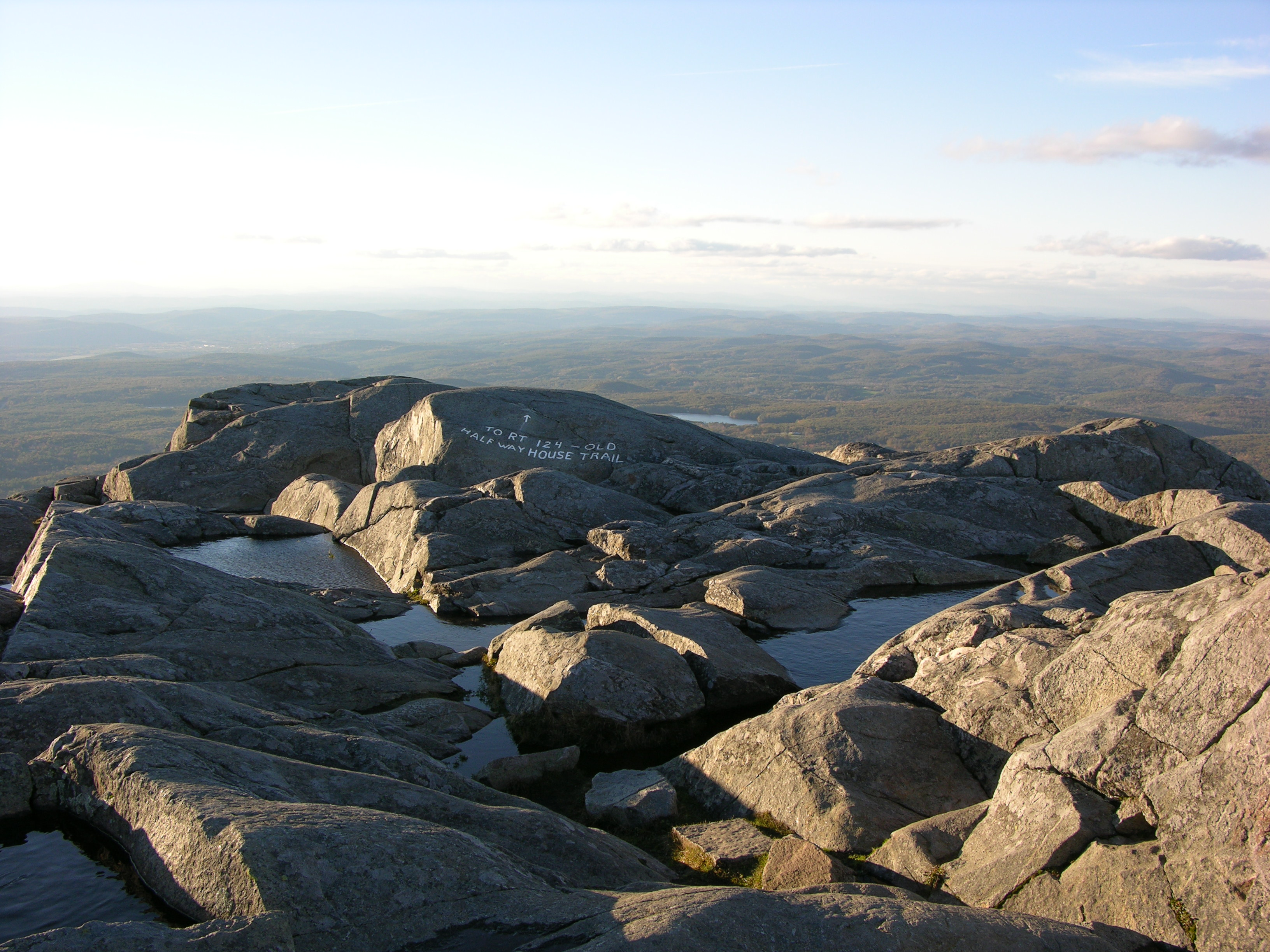 A view from the summit of Mt. Monadnock looking South-East.